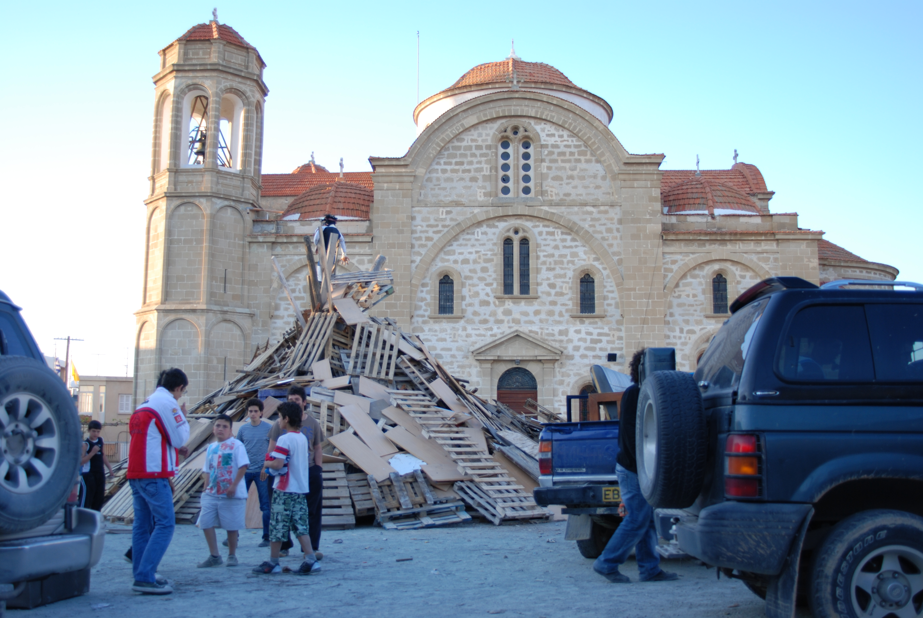 Lampratzia in the old days was lit to burn a Judas effigy. In Cyprus this tradition, like many traditions, was misinterpreted by some in order to give them the right to burn everything and thus the meaning of this Easter Tradition lost.